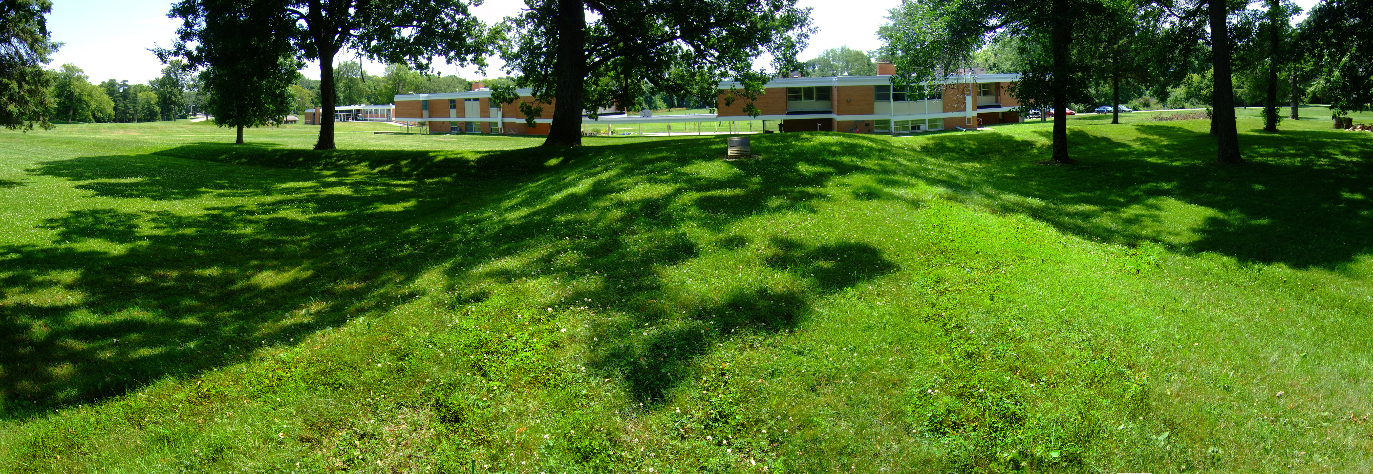 View from the tail toward the head of an eagle mound, one of three eagles at the Mendota Mental Health Institute campus in Madison, Wisconsin. This is the largest effigy mound of its type in Wisconsin, with a body length of 131 feet and a wingspread length of 624 feet. The group of mounds, which also includes two panthers, two bears, one deer, and several conicals, was added to the National Register of Historic Places in 1974.